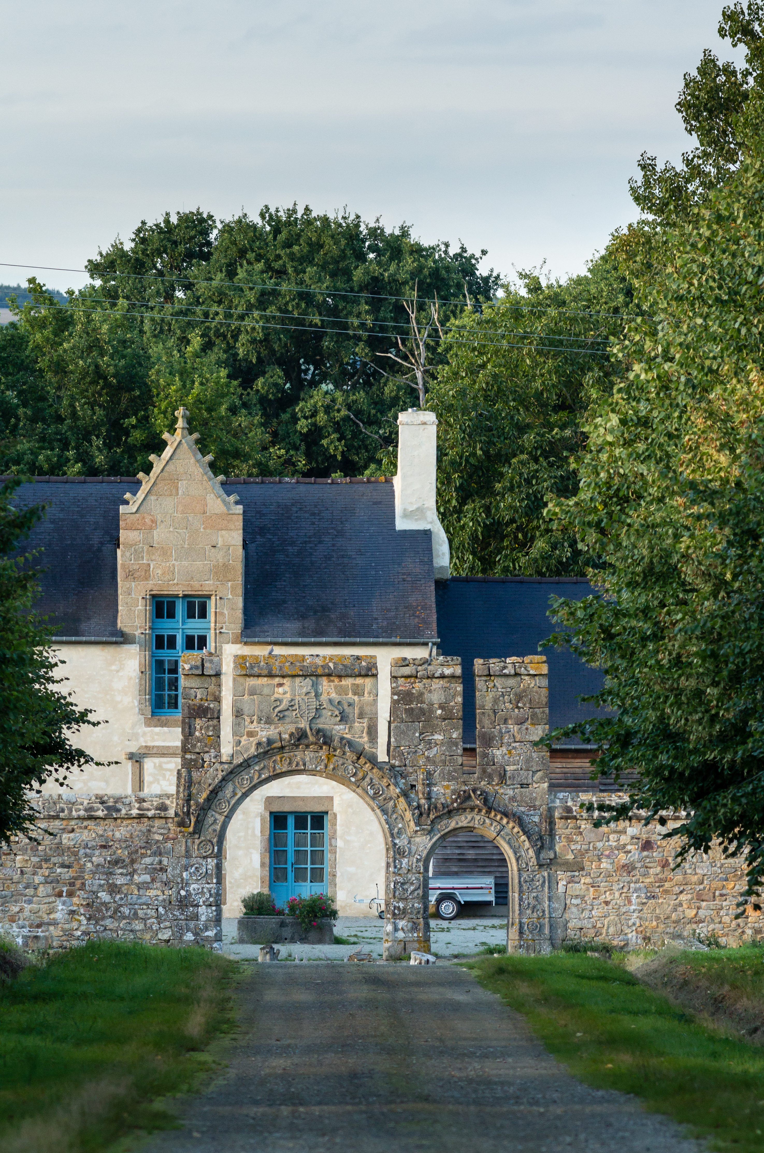 The remains consist of a monumental gate with two arches. The coat of arms of the Gédouin family (argent, a crow sable) and its allies, supported by two lions, surmount the main arch.